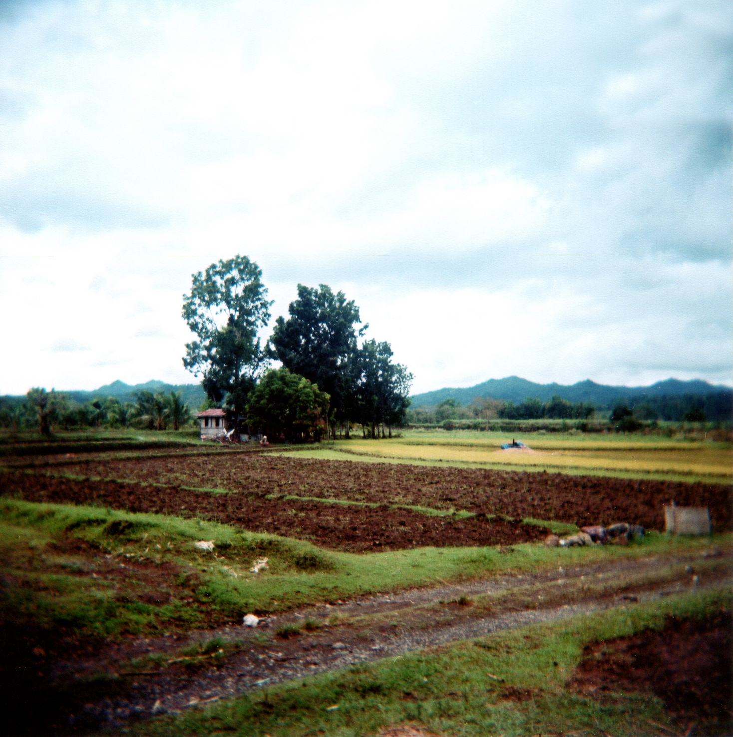 Sugar Cane Farm, Sibalom, Antique Province, Panay Island, Philippines. Taken with a Lomo Holga